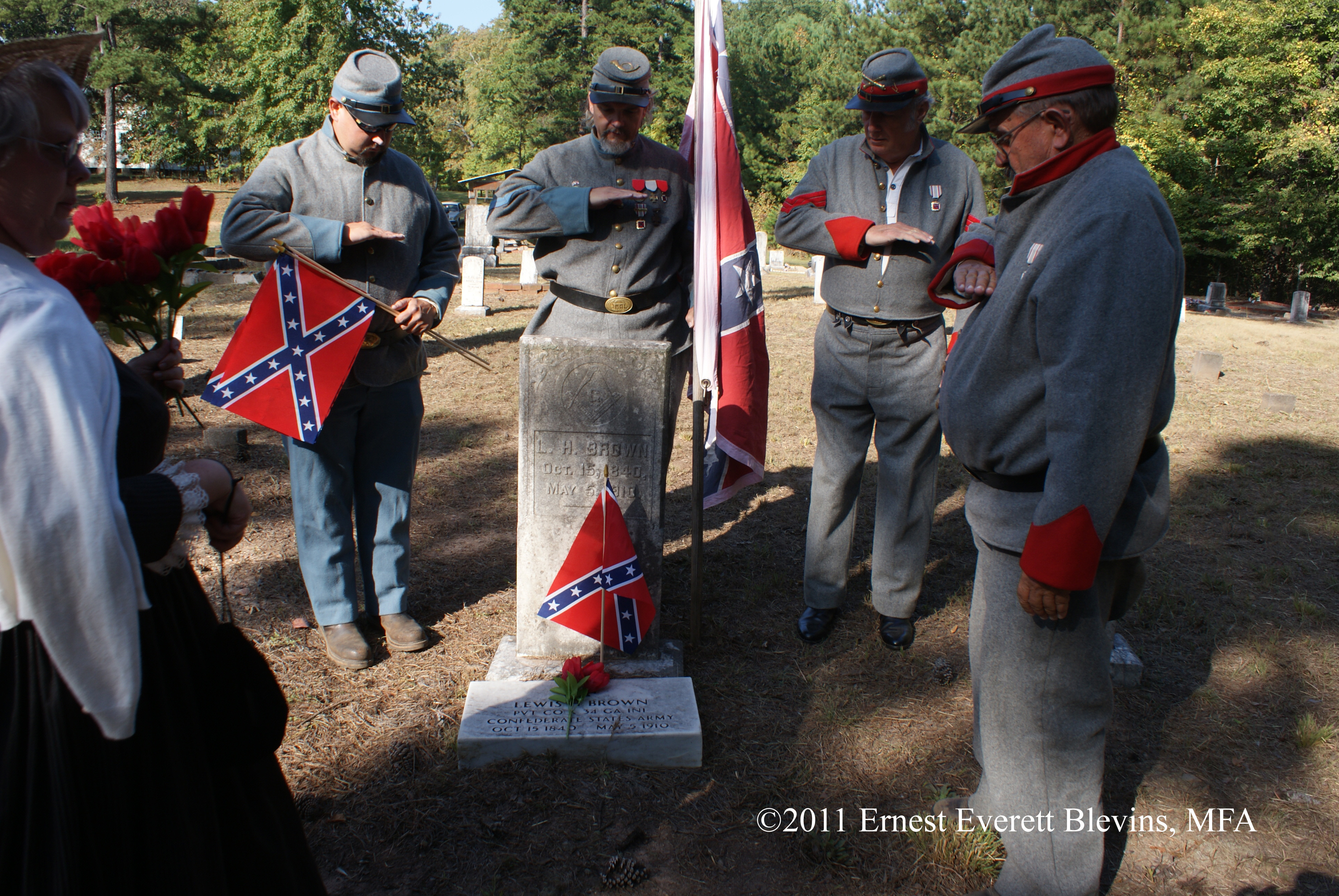 On 08 October 2011, the Sons of Confederate Veterans replaced flags on several graves including Lewis H. Brown after the original flags were removed from Yellow Dirth Church Cemetery by Georgia Power.